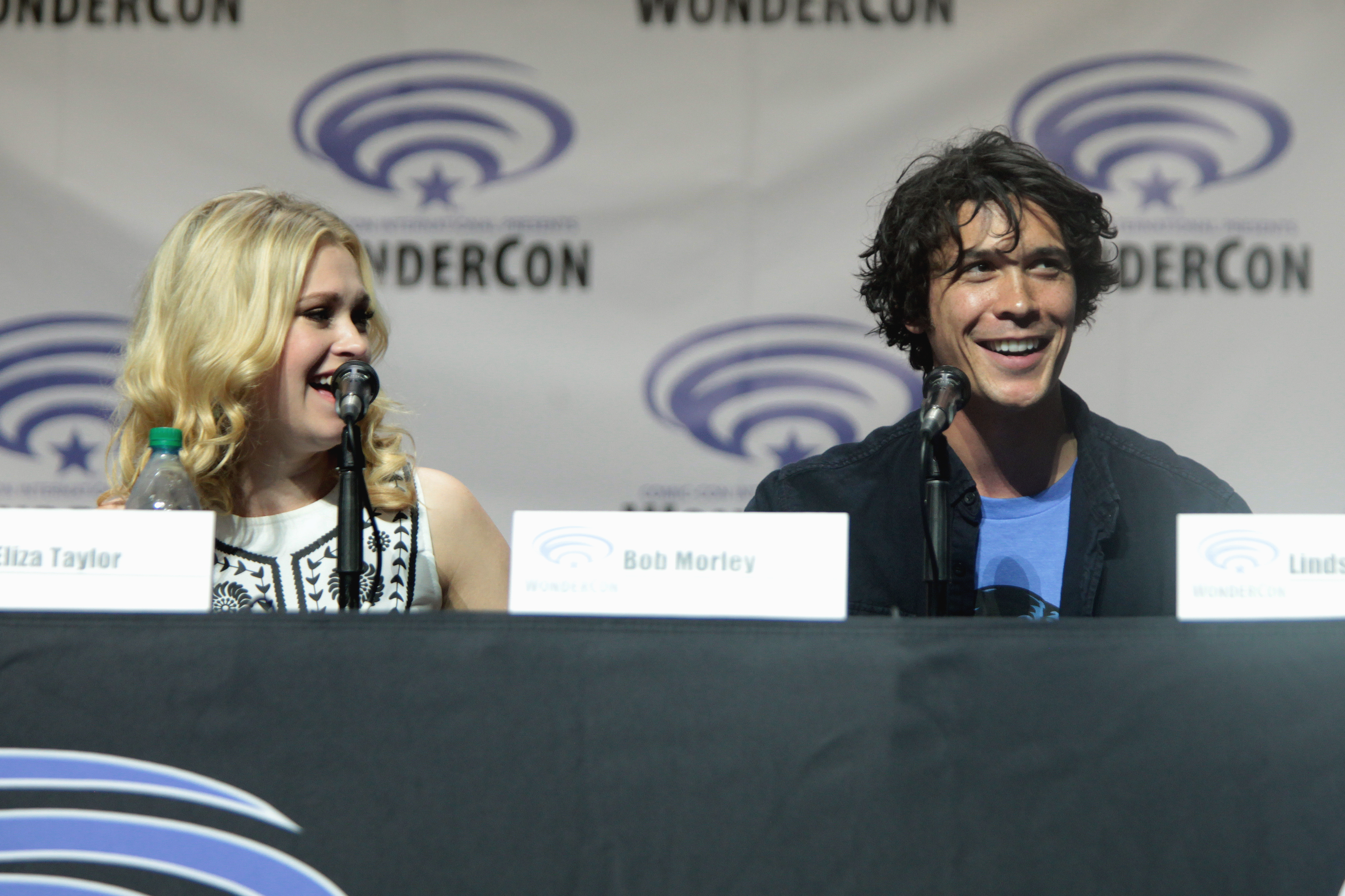 Eliza Taylor and Bob Morley speaking at the 2016 WonderCon, for "The 100", at the Los Angeles Convention Center in Los Angeles, California.